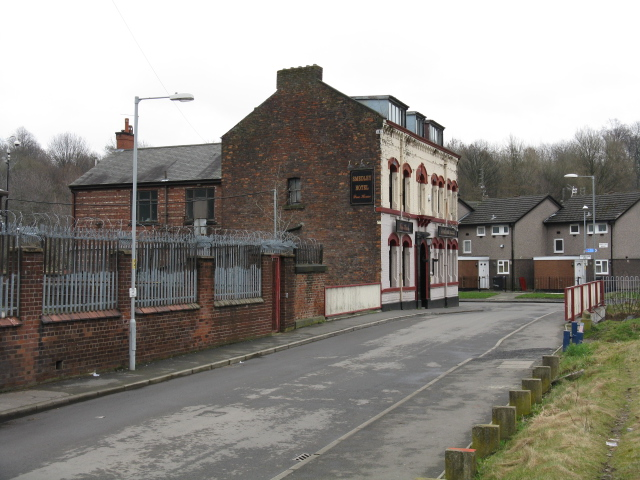 Smedley Hotel, Smedley, Manchester The pub is adjacent to the River Irk.